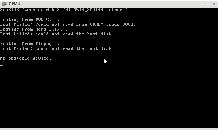 SeaBIOS running under qemu